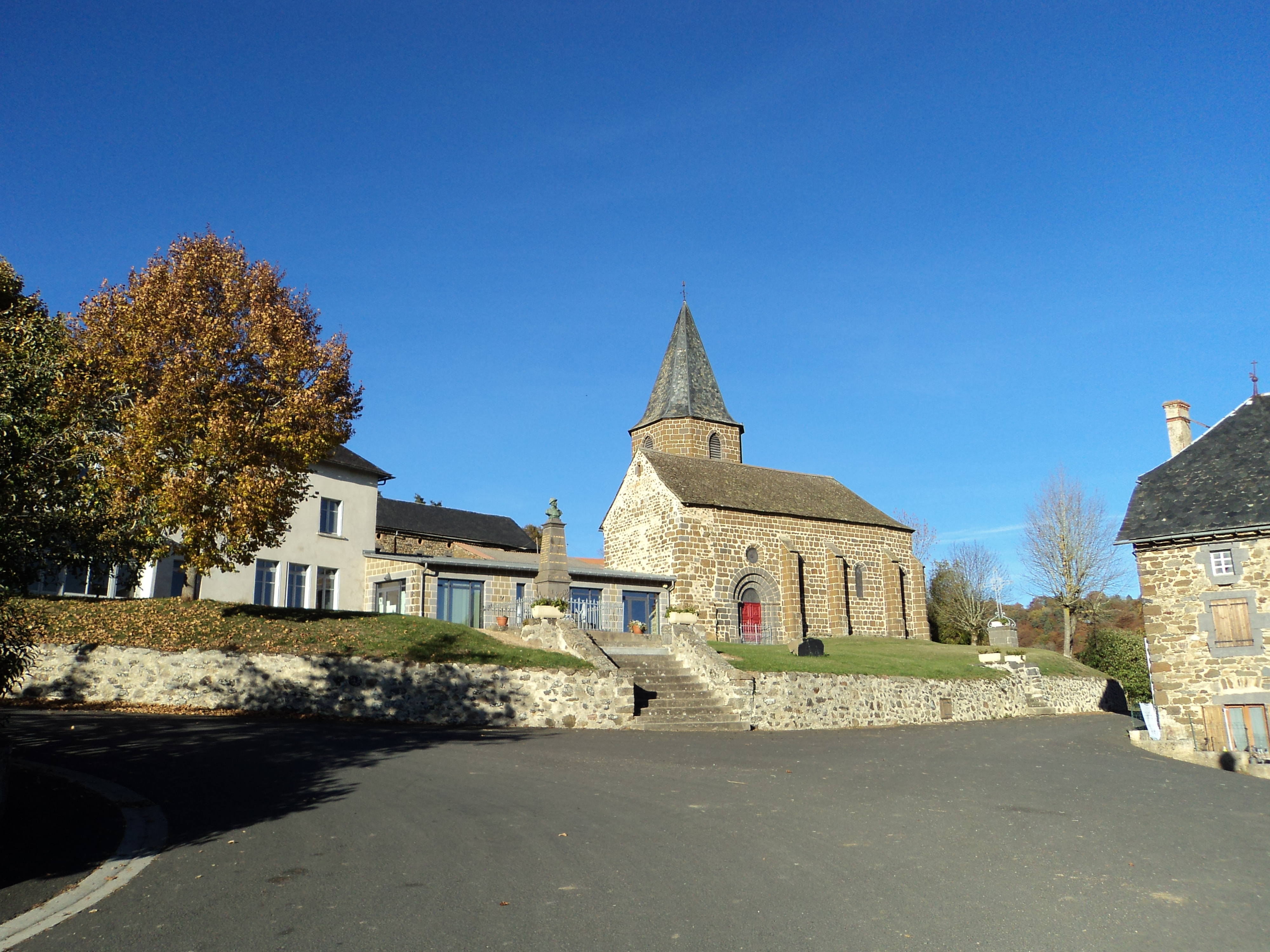 Object location45° 04′ 12.36″ N, 3° 08′ 16.44″ E .